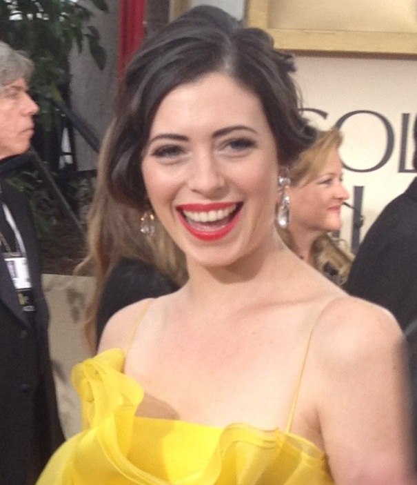 Actress Lauren Miller at the 69th Annual Golden Globes Awards